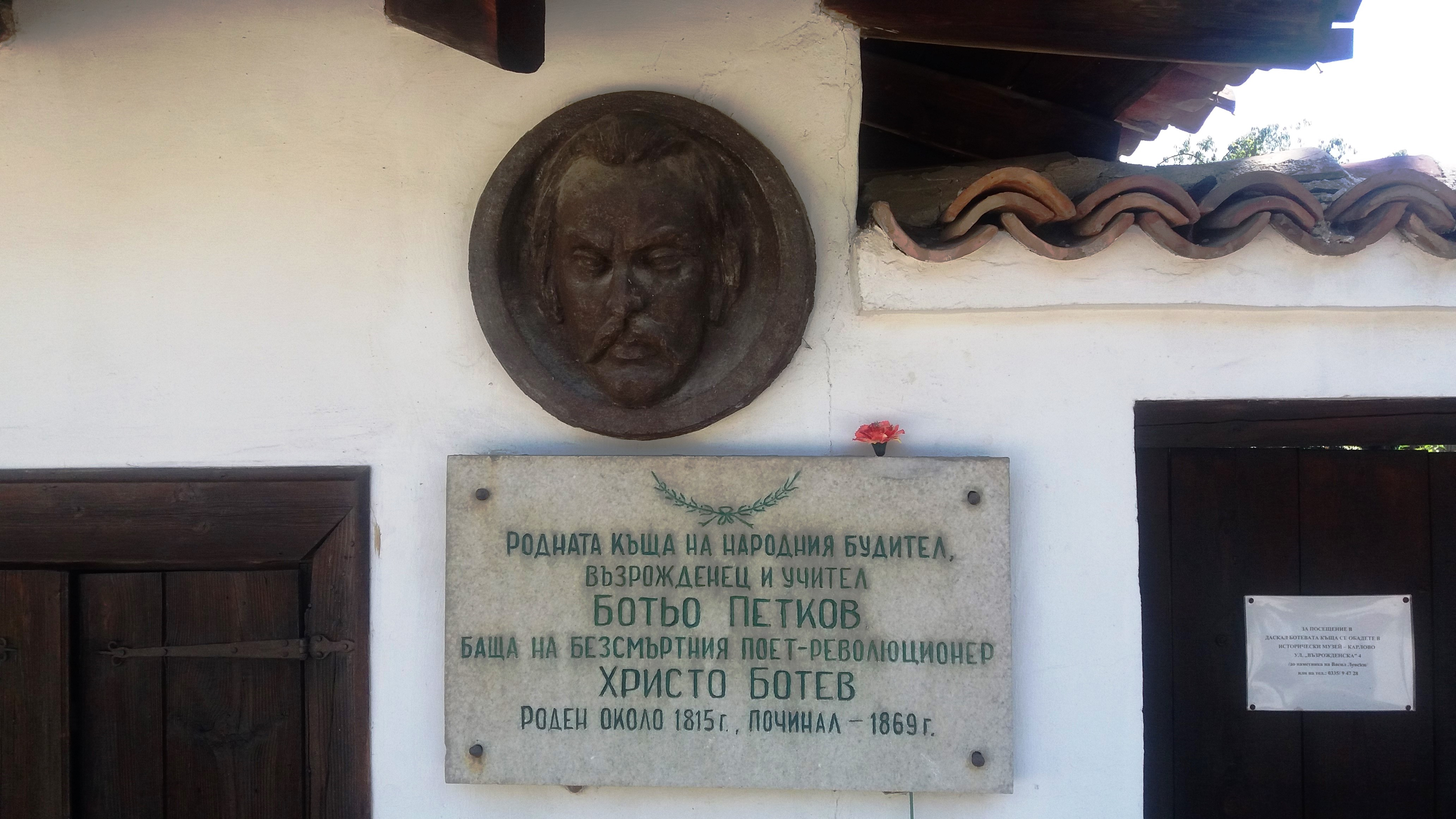 A memorial plaque before the birthhouse of bulgarian teacher Botyo Petkov